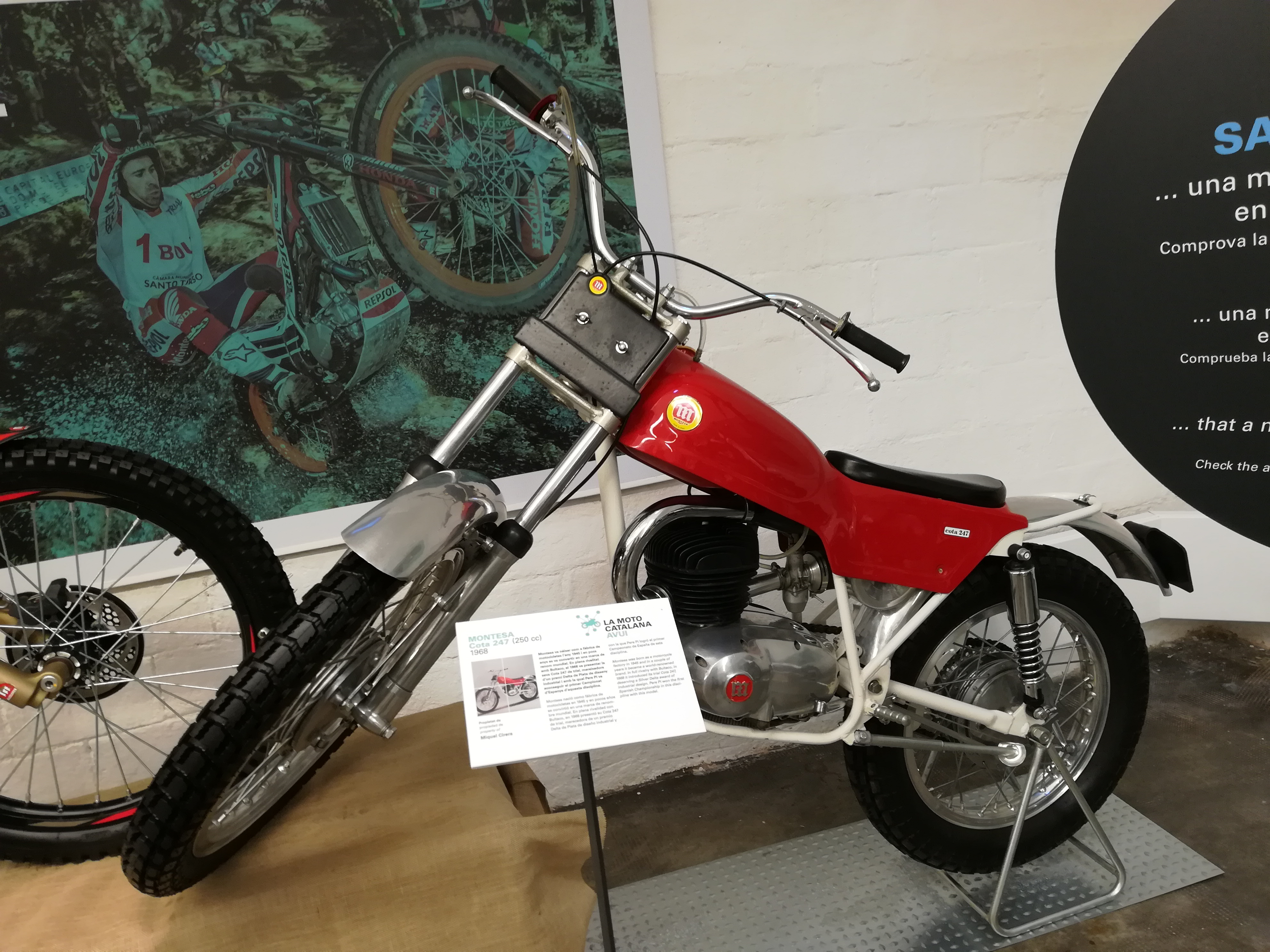 Montesa Cota 247 (1968, the first version).Museu de la Moto de Barcelona (Catalonia).